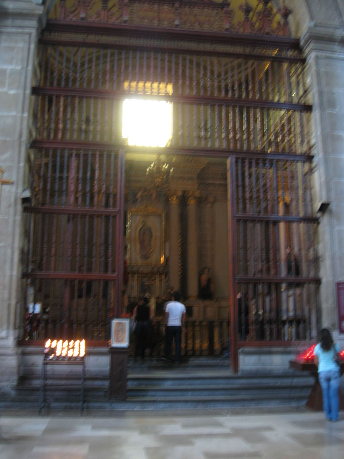 Chapel of the Virgin of Guadalupe in the Mexico City Cathedral